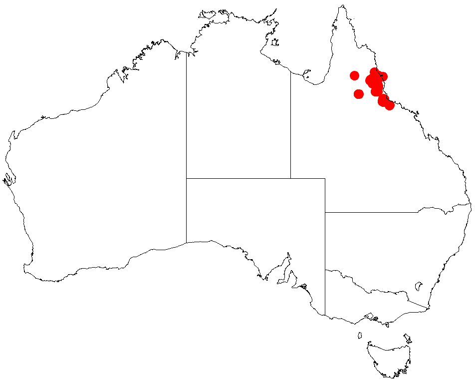 Acacia whitei occurrence data from Australasia Virtual Herbarium downloaded from on 8 December 2018